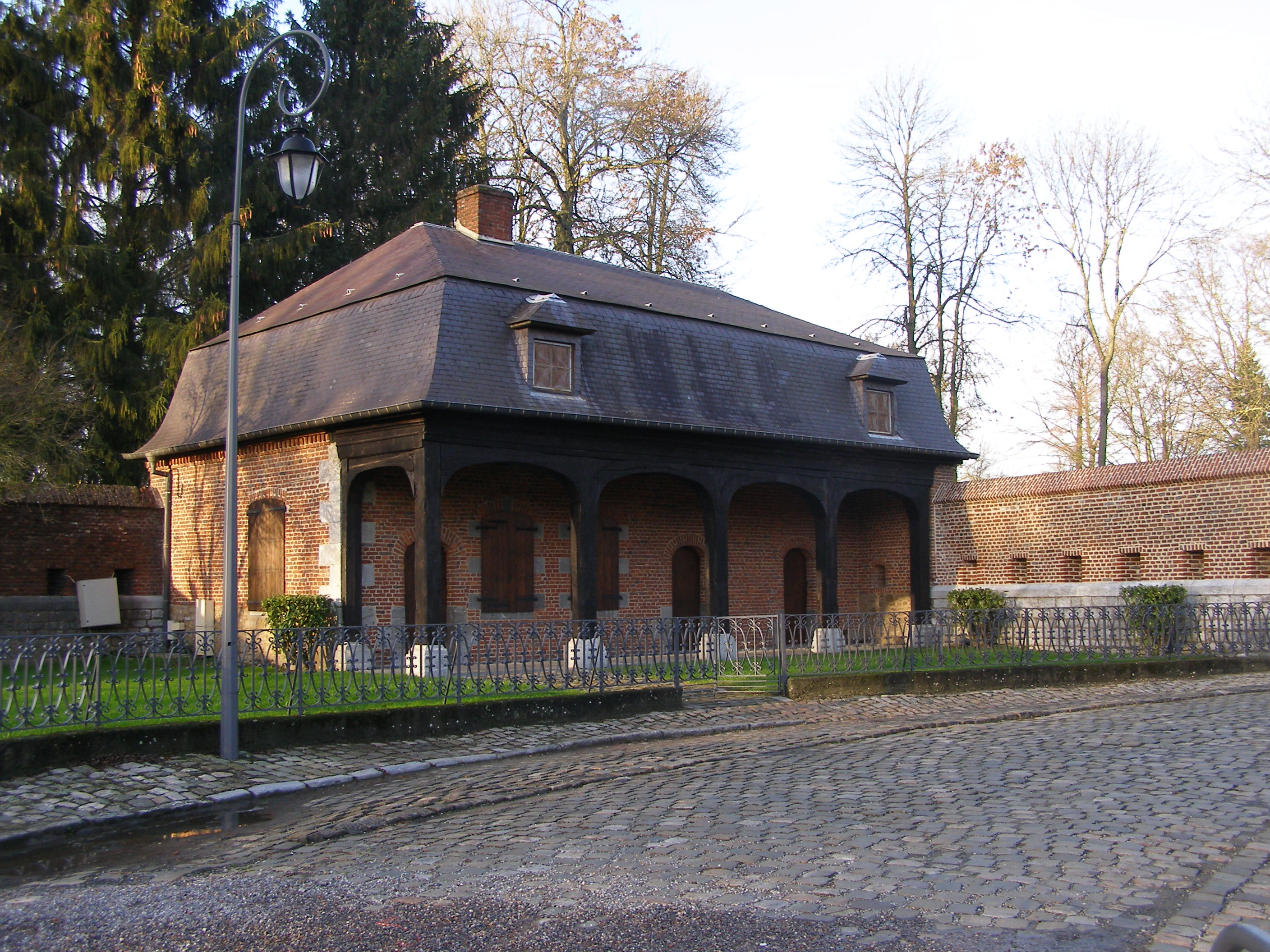 Vauban, ramparts: the guardhouse.